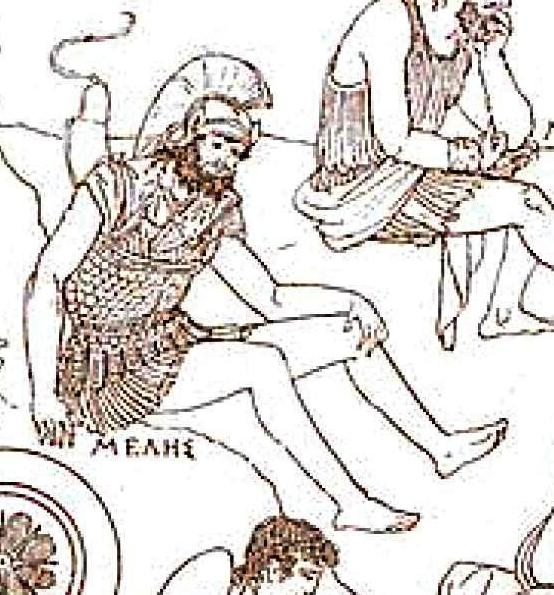 Detail form Reconstruction of Iliupersis by Polygnotus.JPG